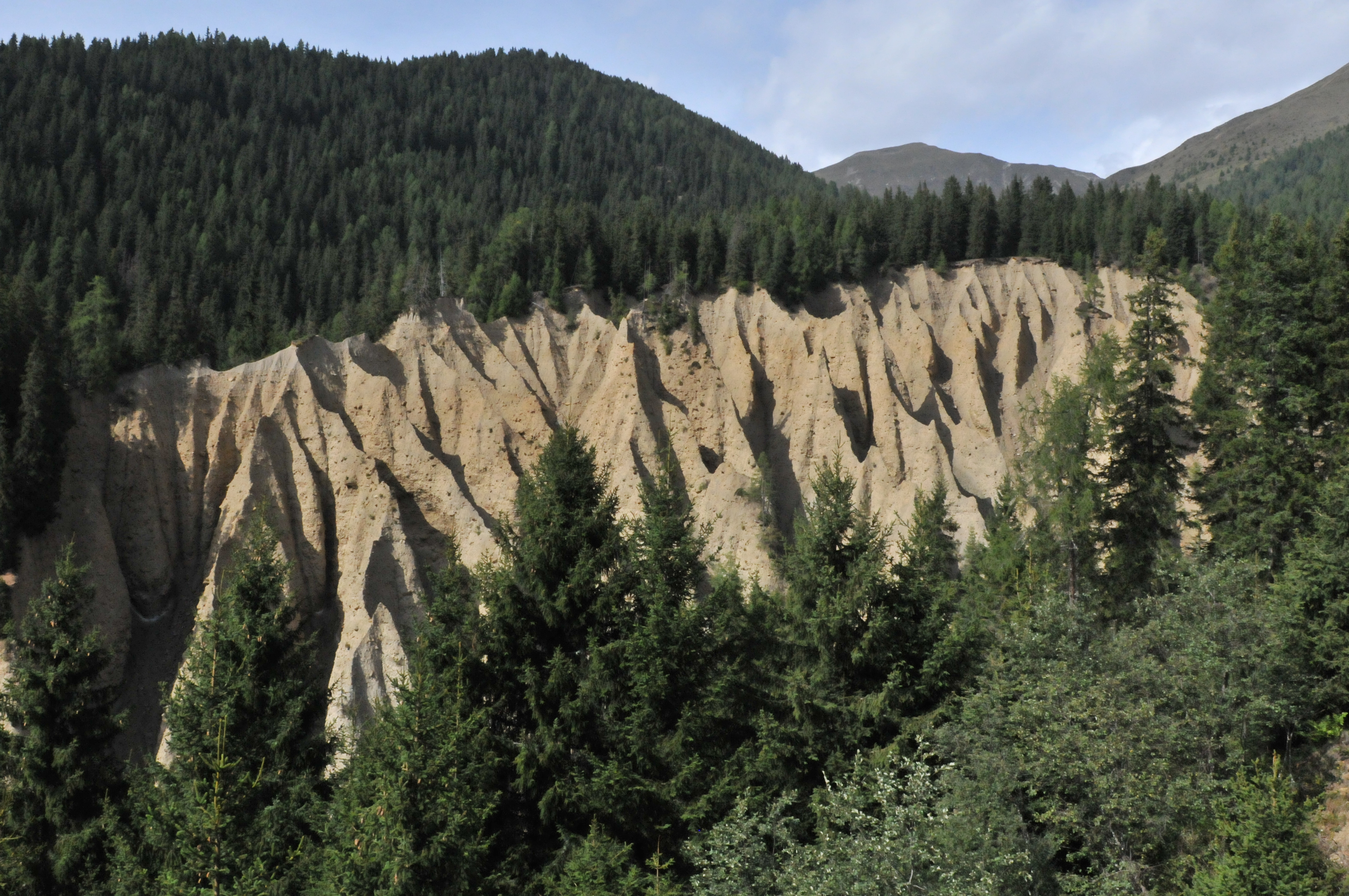 View of the earth pyramids in Toblach